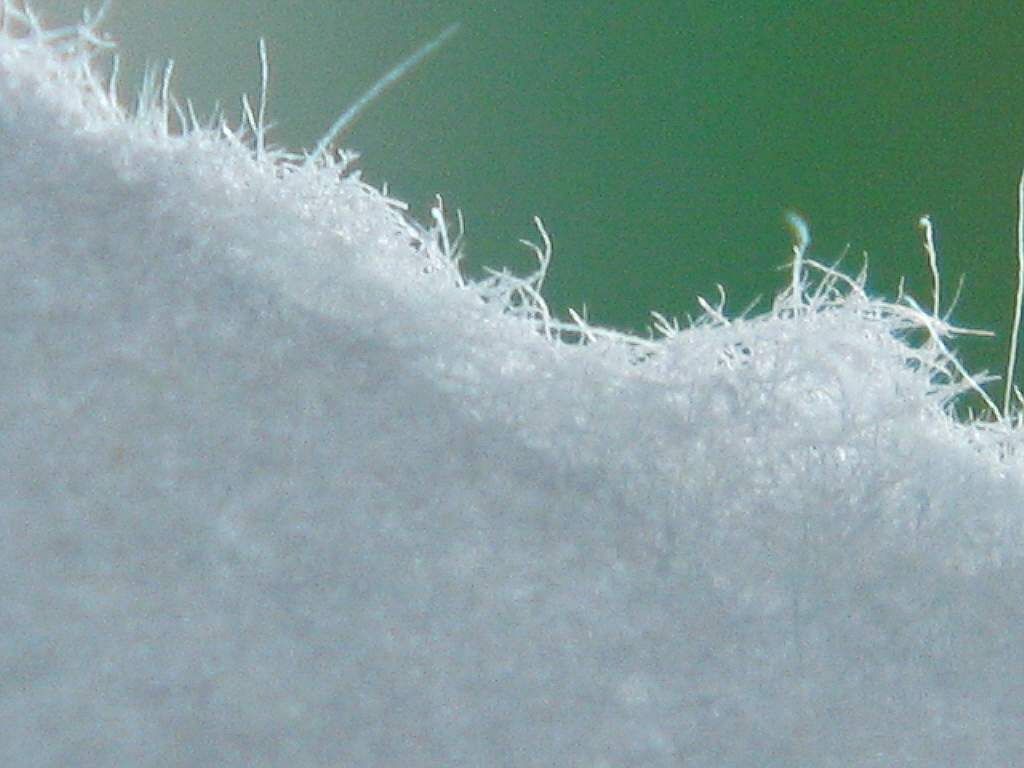 Paper